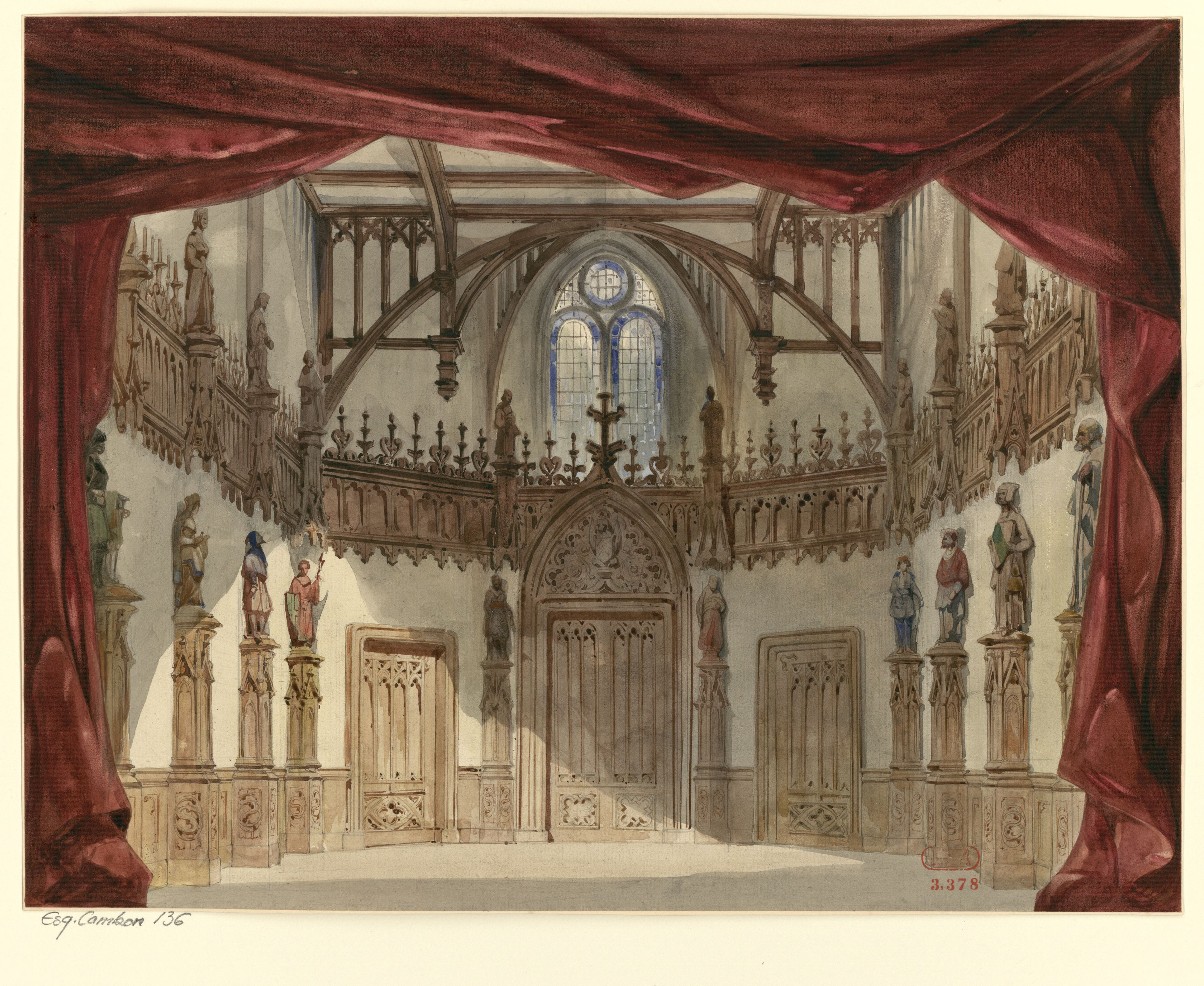 Set design for Victor Hugo's Les Burgraves, second part. Watercolour and gouache, 270 x 252 mm